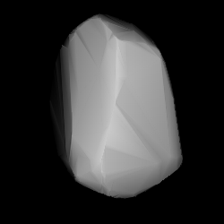 3D convex shape model of 791 Ani, computed using light curve inversion techniques. J. Hanuš, J. Ďurech, M. Brož, B. D. Warner (June 2011). "A study of asteroid pole-latitude distribution based on an extended set of shape models derived by the lightcurve inversion method". Astronomy and Astrophysics 530: A134. ISSN 0004-6361. arXiv